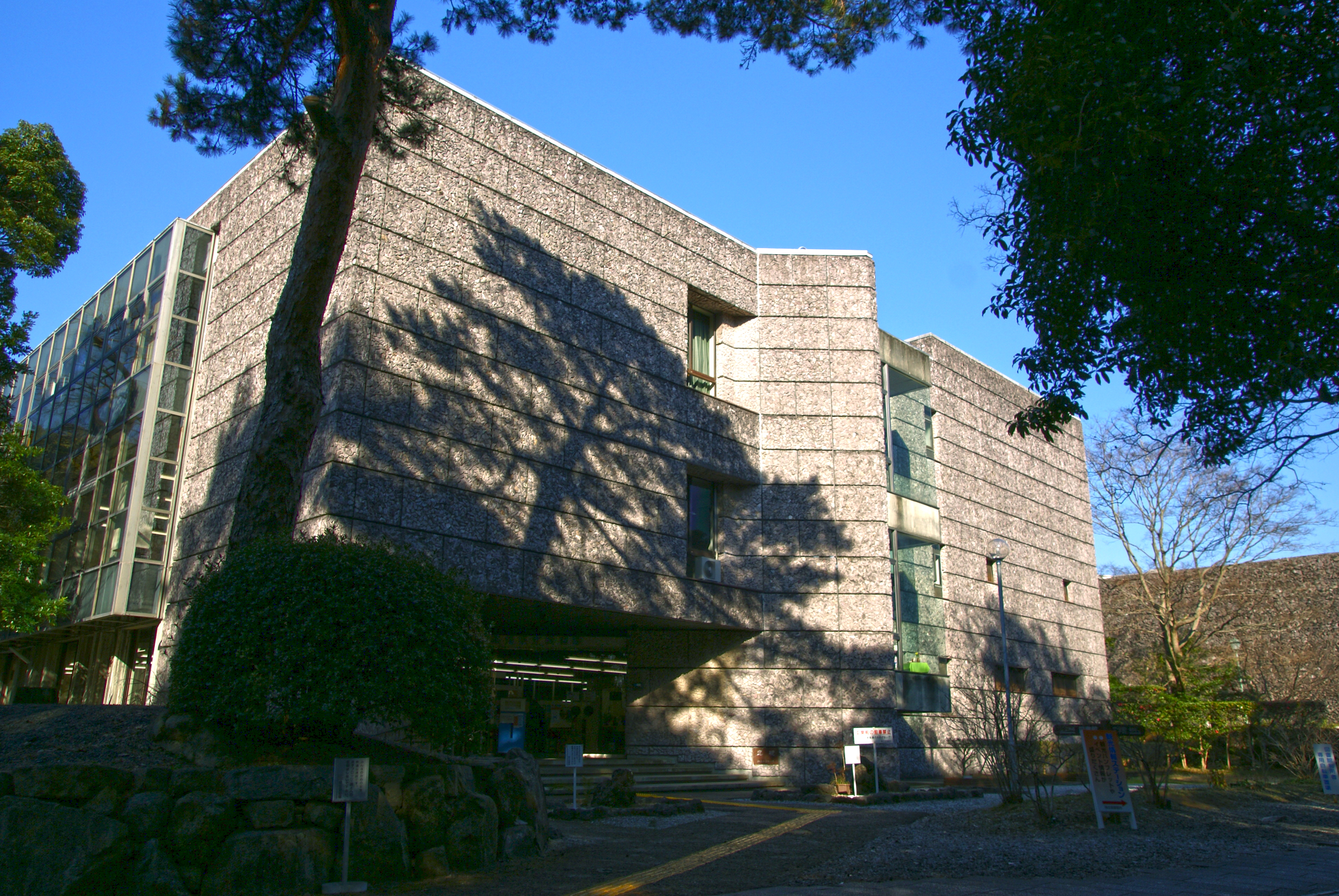 Kochi Prefectural Library in Kochi, Kochi prefecture, Japan.